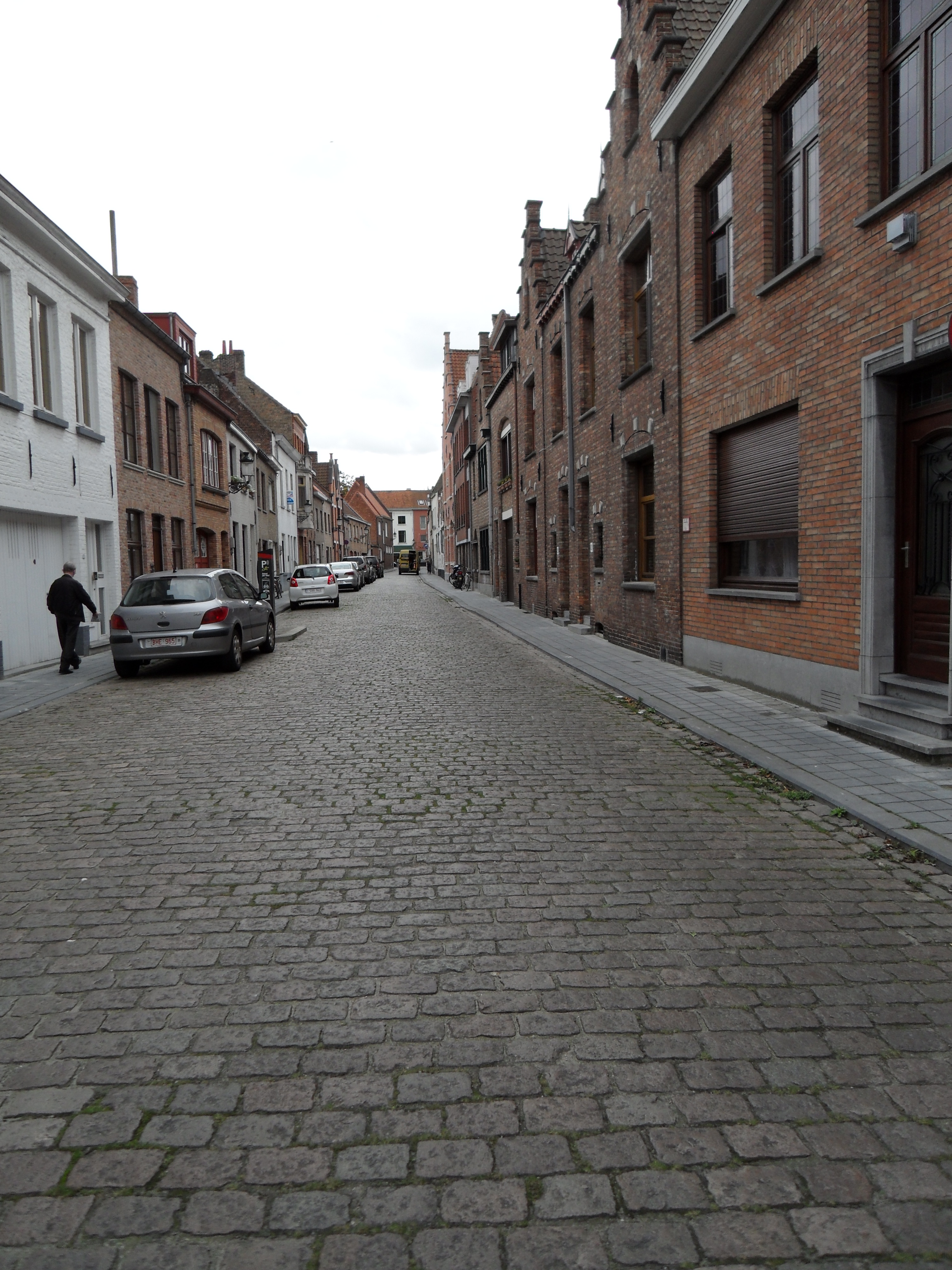 Greinschuurstraat in Bruges